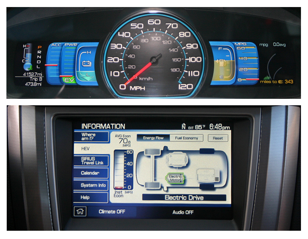 Smart Gauge dashboard on all 2010 Ford Fusion Hybrids